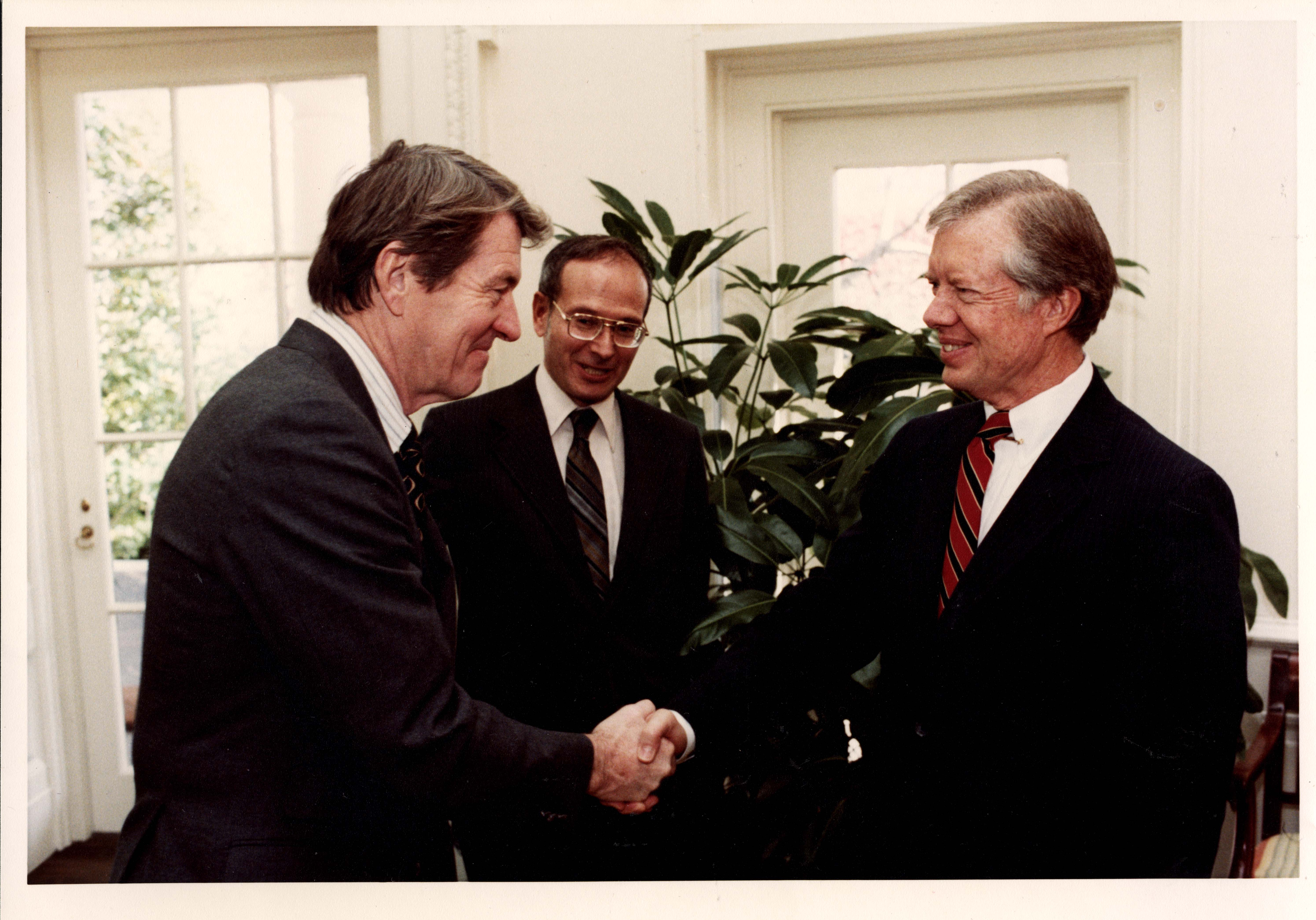 Christian B. Anfinsen (left), American biochemist, shaking hands with president Jimmy Carter in 1980. Description from source Date: 1980 Creator: White House Rights: Courtesy of Libby Anfinsen. This item is in the public domain. It may be used without permission. Exhibit Category: Biographical Information Unique Identifier: KKBBBY Document Type: Photographic prints Format: image/jpeg, image/tif Physical Condition: Good Series: From the collection of Libby Anfinsen SubSeries: Photographs Folder: Christian Anfinsen shaking hands with Jimmy Carter (color) (1980) Metadata Last Modified Date: 2000-10-24